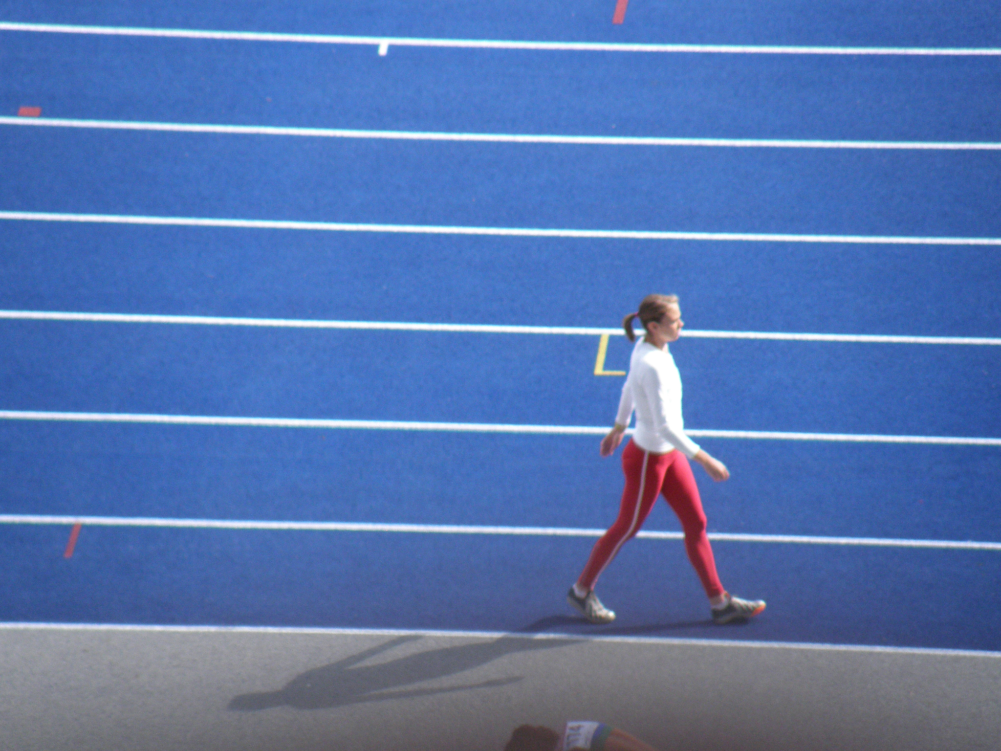 Teresa Dobija (Long Jump) - World Championships in Athletics: Berlin 2009